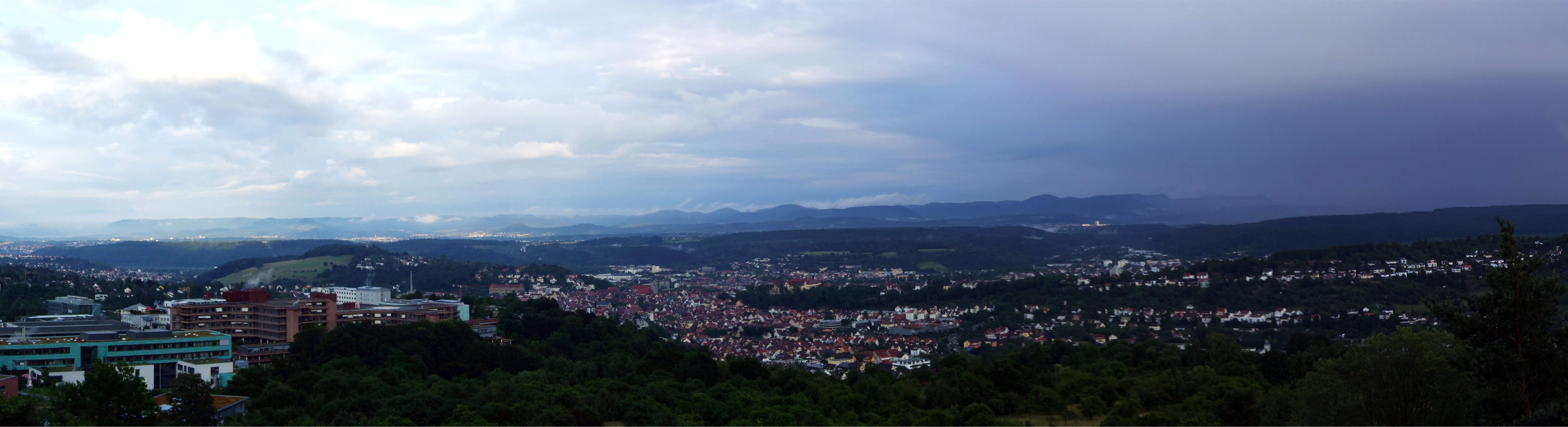 Panorama of Tuebingen, photographed from Steinenbergturm